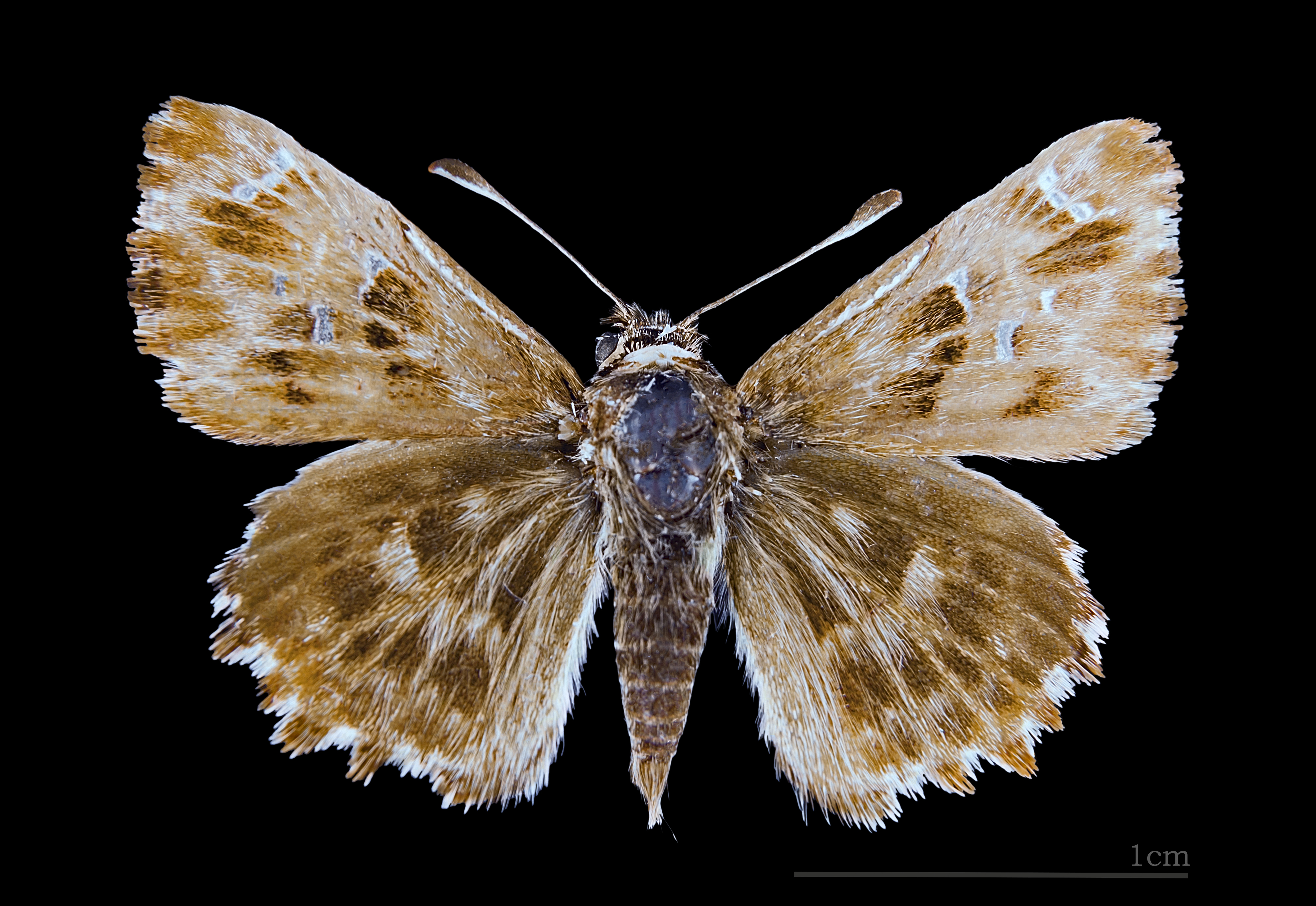 Mallow Skipper - Dorsal side Face dorsale